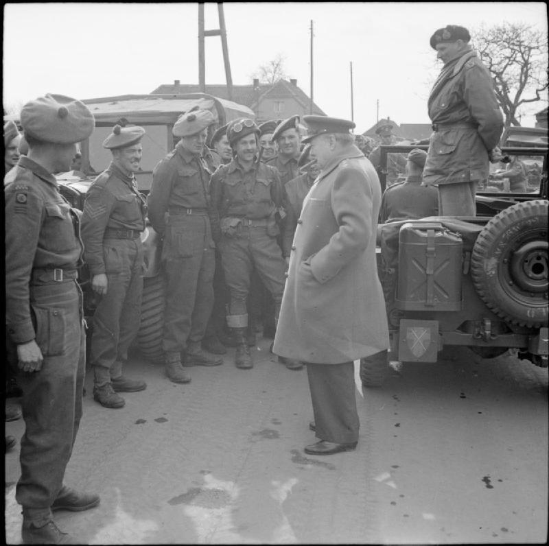 The British Army in North-west Europe 1944-45 Winston Churchill and Field Marshal Montgomery, the latter standing in a jeep, talking to Scottish troops near the Rhine, 26 March 1945.